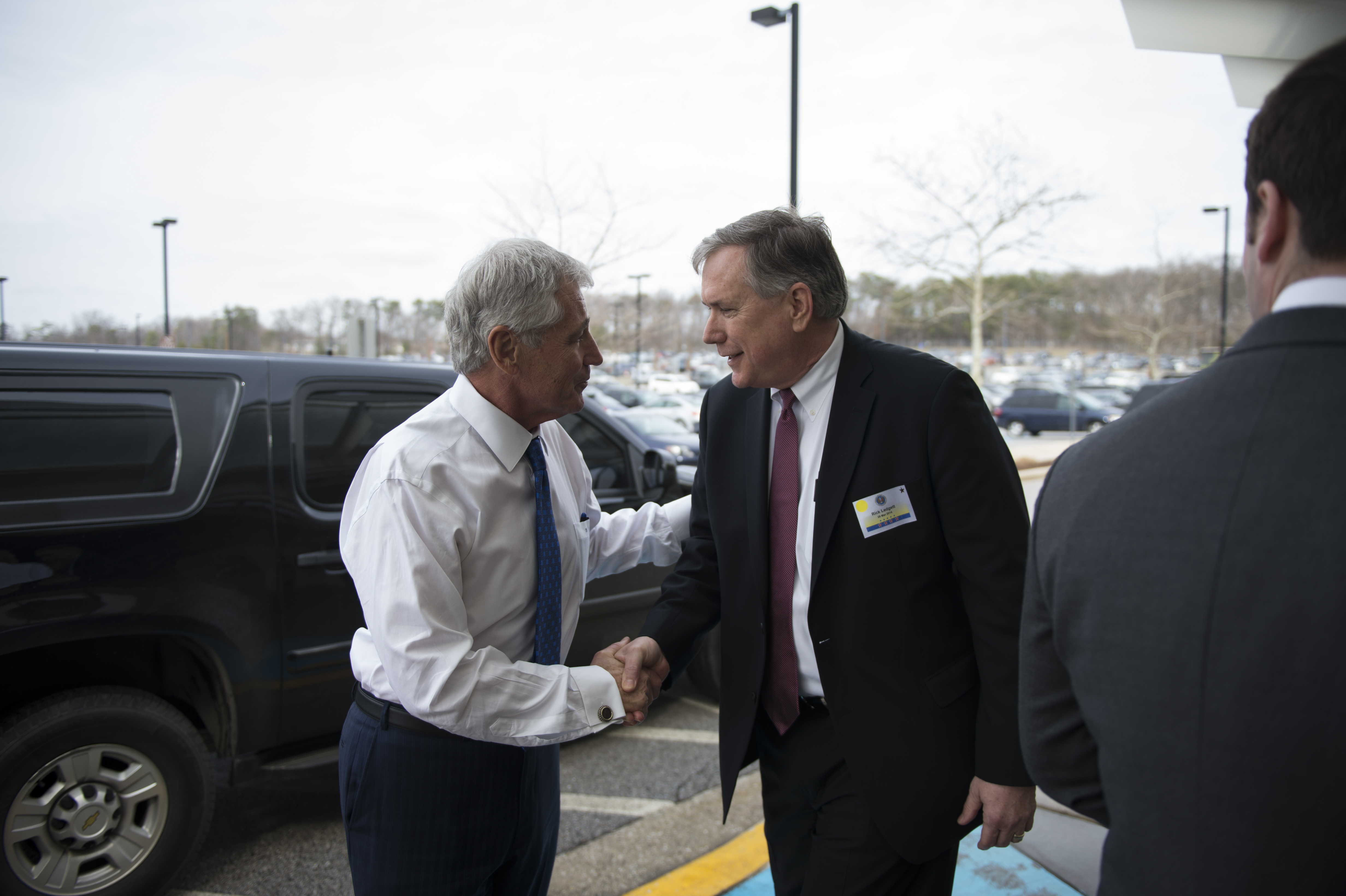 Secretary of Defense Chuck Hagel, left, shakes hands with National Security Agency (NSA) Deputy Director Richard Ledgett March 28, 2014, at the NSA headquarters at Fort George G. Meade, Md. Hagel visited the facility to attend a retirement ceremony for U.S. Army Gen. Keith B. Alexander, who served as the director of the NSA during the last assignment of his 39-year Army career.